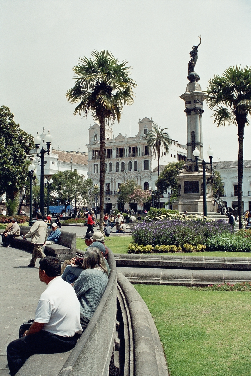 Independence square in the historic centre of Quito, Ecuador